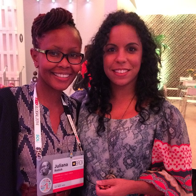 Danay Suarez from Cuba at TEDglobal